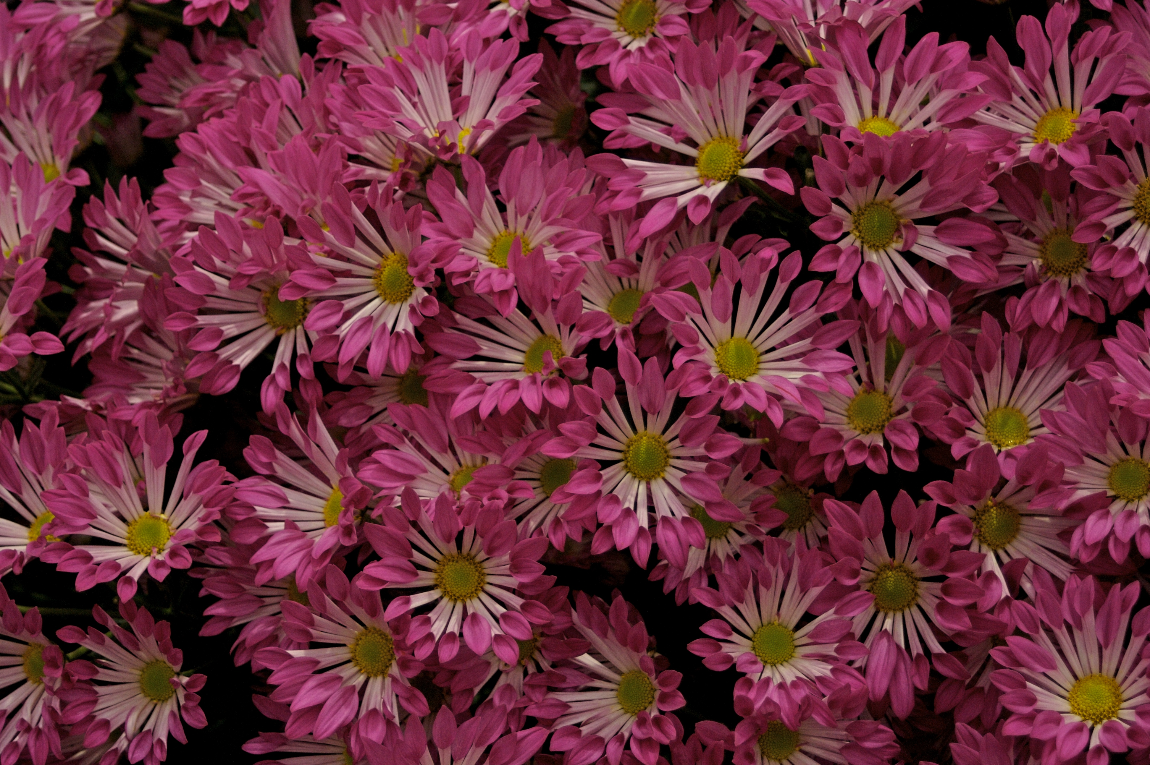 Chrysanthemum Dance. Taken during Tatton Park Flower Show 2009